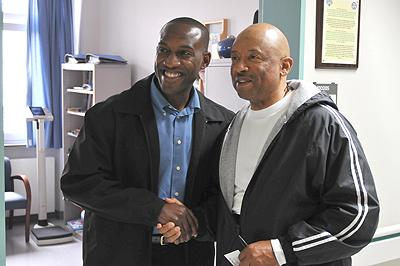 Marine Capt. Ken Bevel (left) an actor from the movie FIREPROOF, poses with a patient during his May, 18, 2009, visit at Landstuhl Regional Medical Center, Germany. LRMC is the largest American hospital outside the United States, serving more than 245,000 U.S. military personnel and their families within the European Command. LRMC is also the evacuation and treatment center for all injured U.S. servicemembers serving in Afghanistan and Iraq.